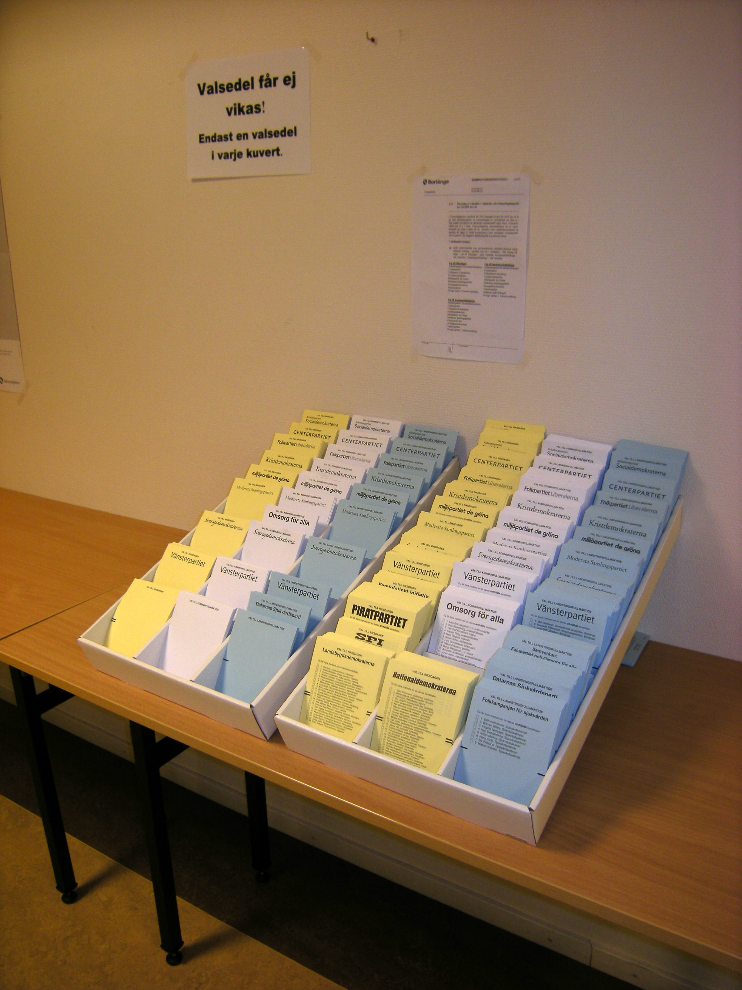 Swedish elections 2010. The ballots to choose from at a polling station in Borlänge on the day of the general elections